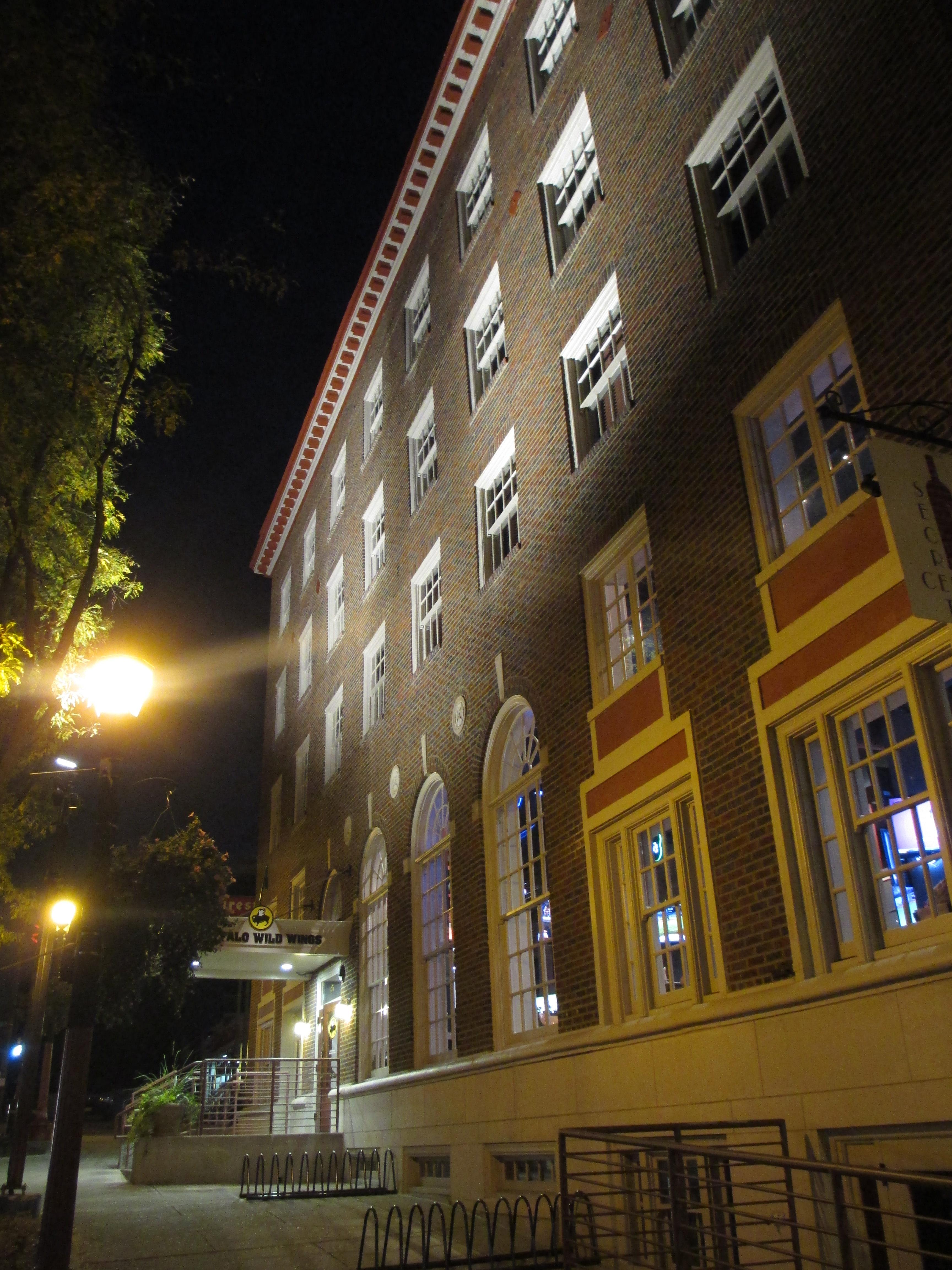 Front view of Acorn Corner, historically known as the Franklin Hotel, in Kent, Ohio, United States, illuminated at night.